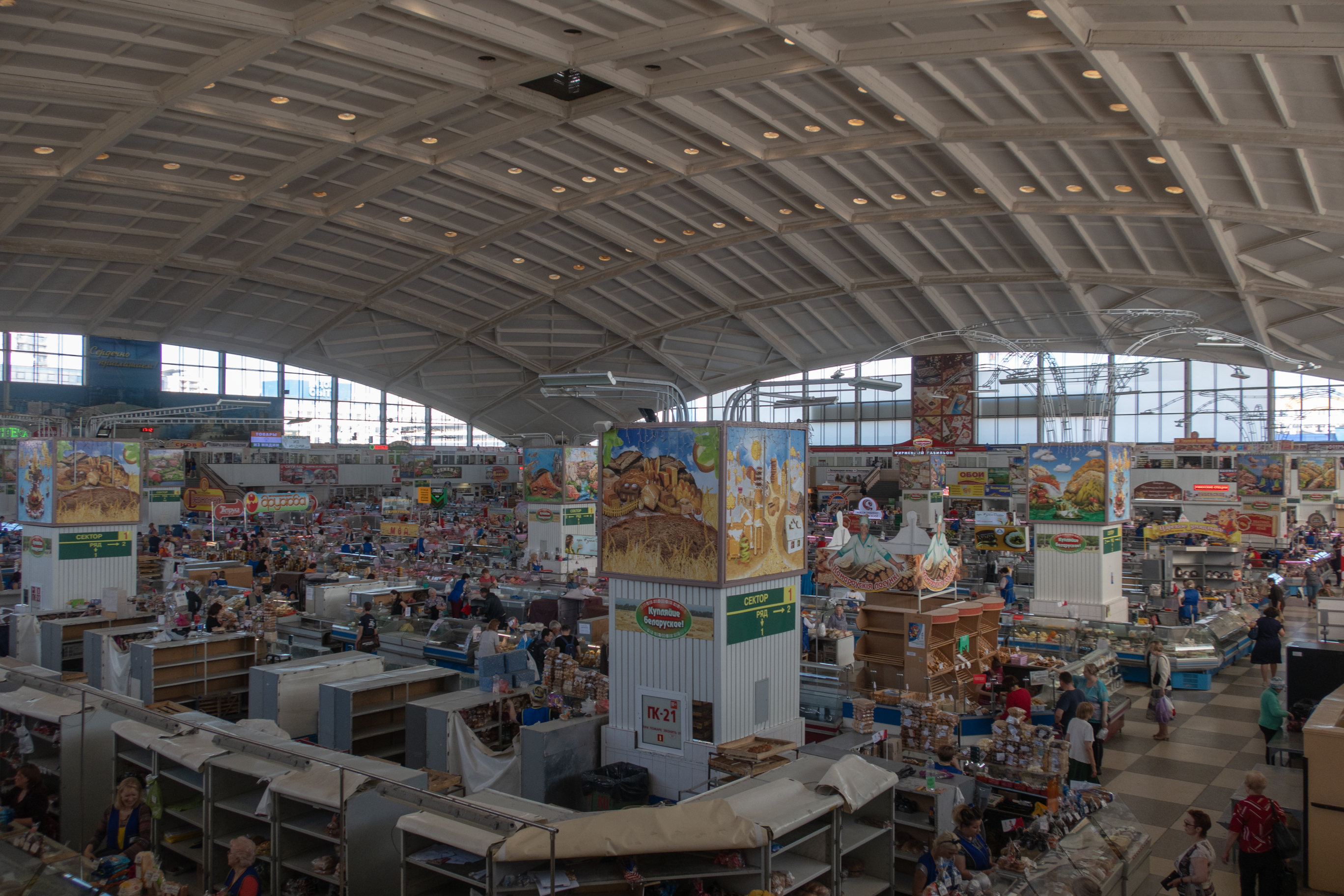 Kamaroŭski market (Minsk, Belarus)